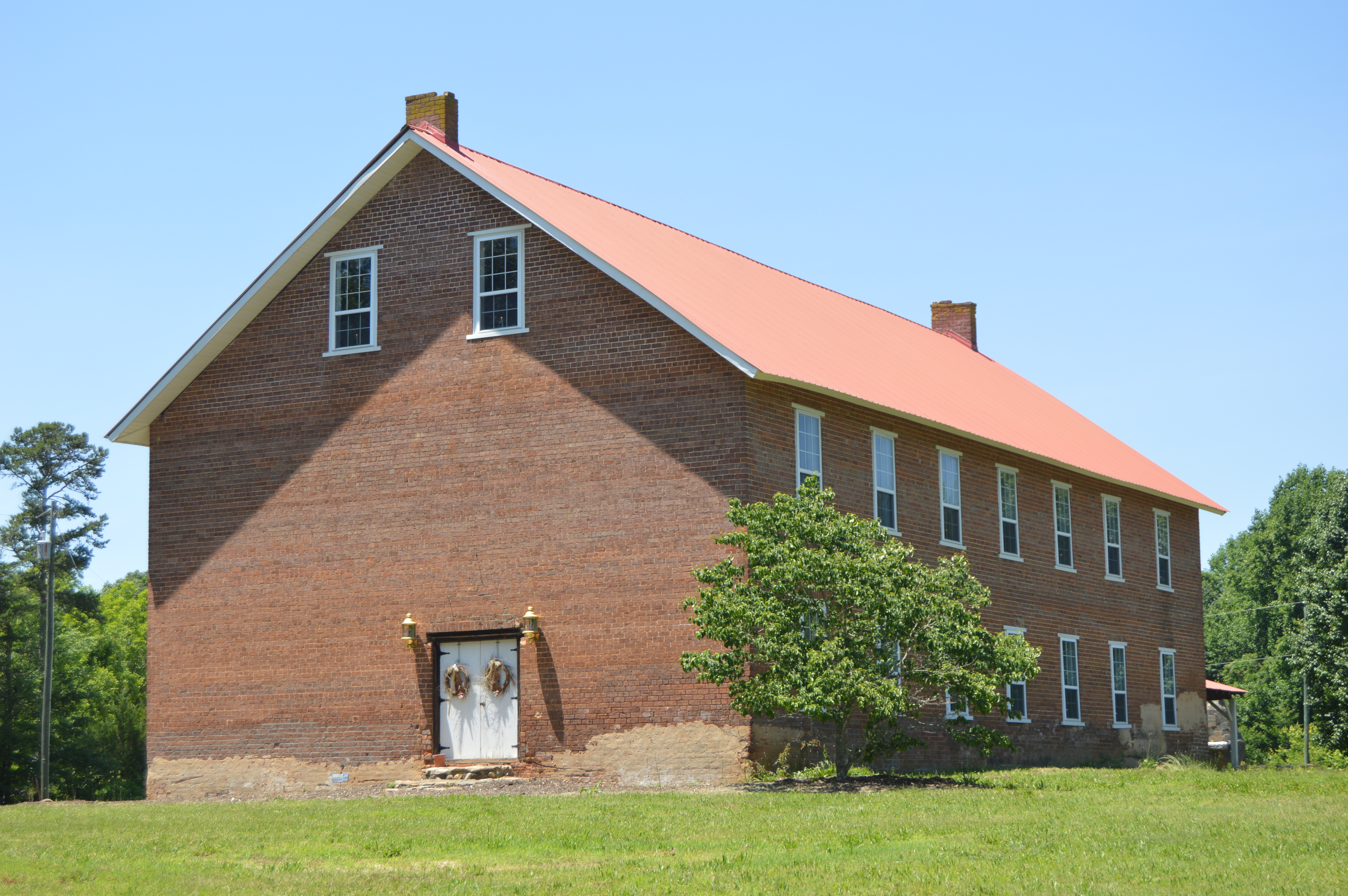 Front and eastern side of the Brooklyn Tobacco Factory, located on River Road at Brooklyn in Halifax County, Virginia, United States. Built in 1855, it is listed on the National Register of Historic Places.